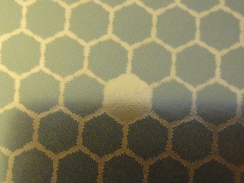 Cut from the sample runs of the main conductor rods of abandoned Texas Superconducting Super Collider.